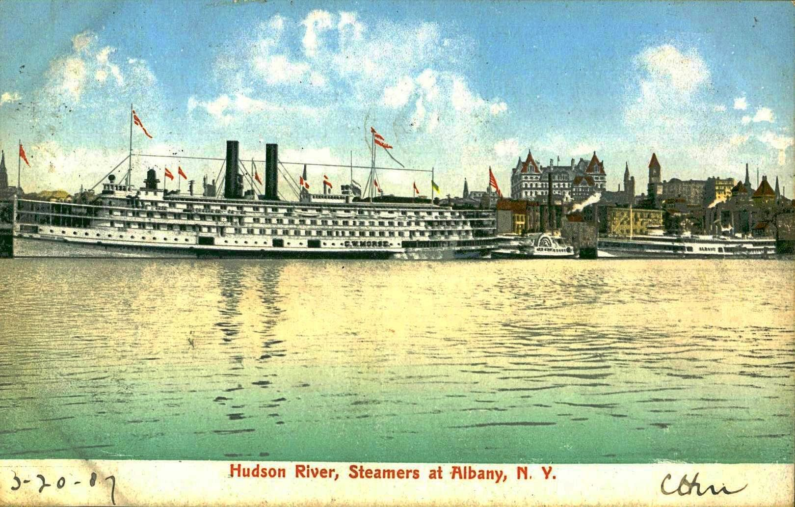 Steamer C.W. Morse, at Albany, NY